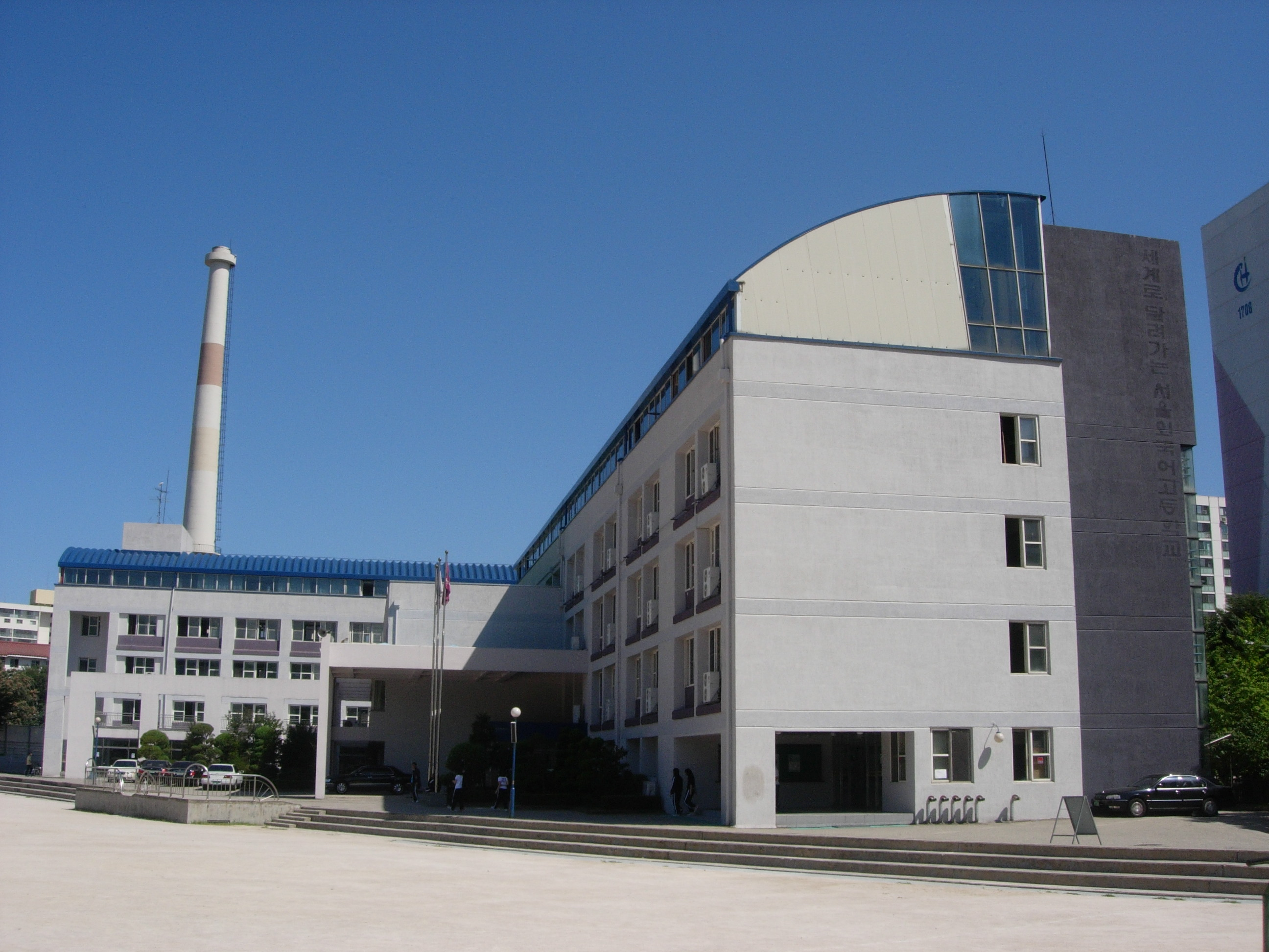 Seoul Foreign Language High school (서울외국어고등학교)